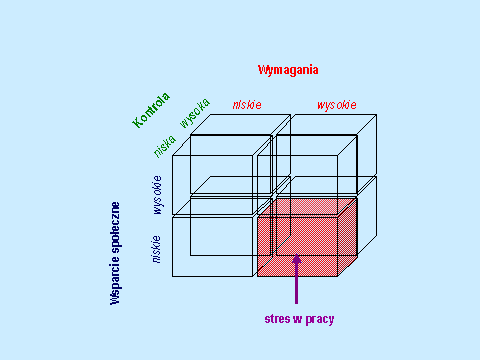 Photo that ilustrate functioning a demand-control-supprot model